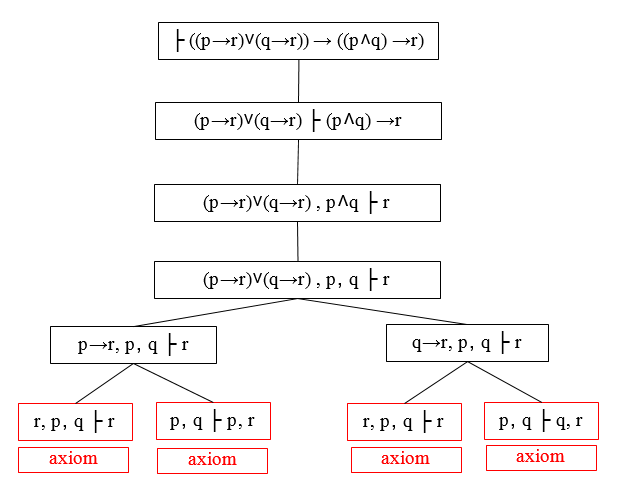 An exmple of using sequent calculus for proving a formula in propositional logic. Created by myself, free for anyone's use.